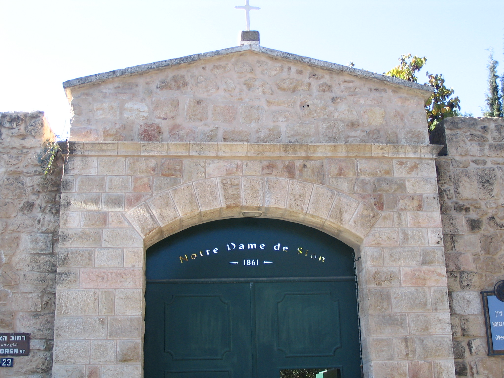 Ein Kerem, Notre Dame de Sion